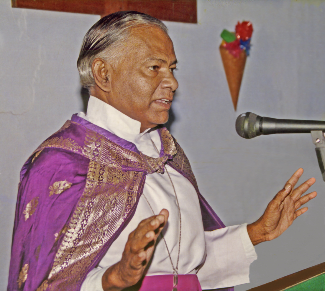 The 9. Bishop of Tranquebar Jubilee Gnanabaranam Johnson of the Tamil Evangelical Lutheran Church of Tamil Nadu preaching a sermon.